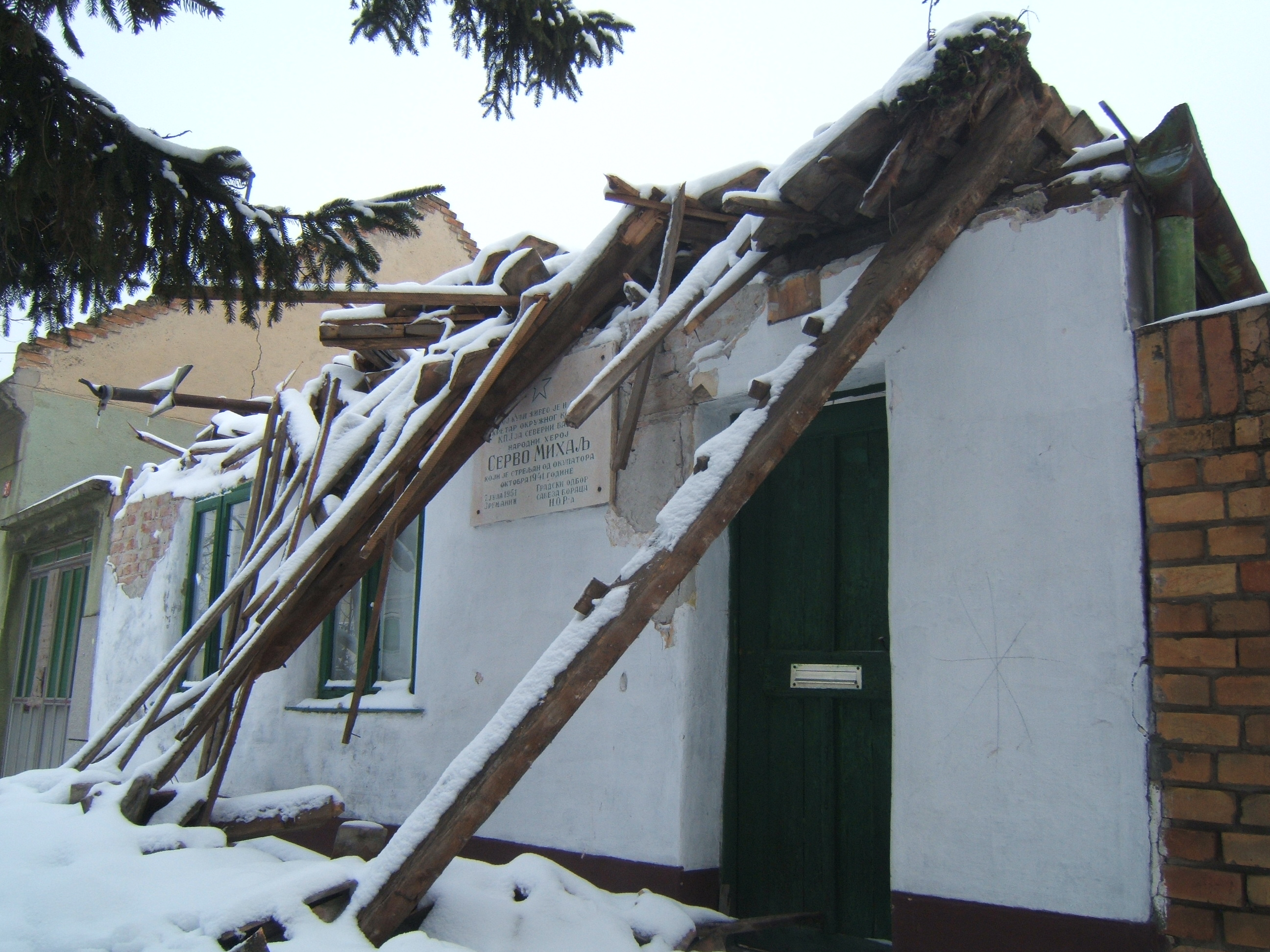 House of Mihály Szervó after collapsing in December 2010